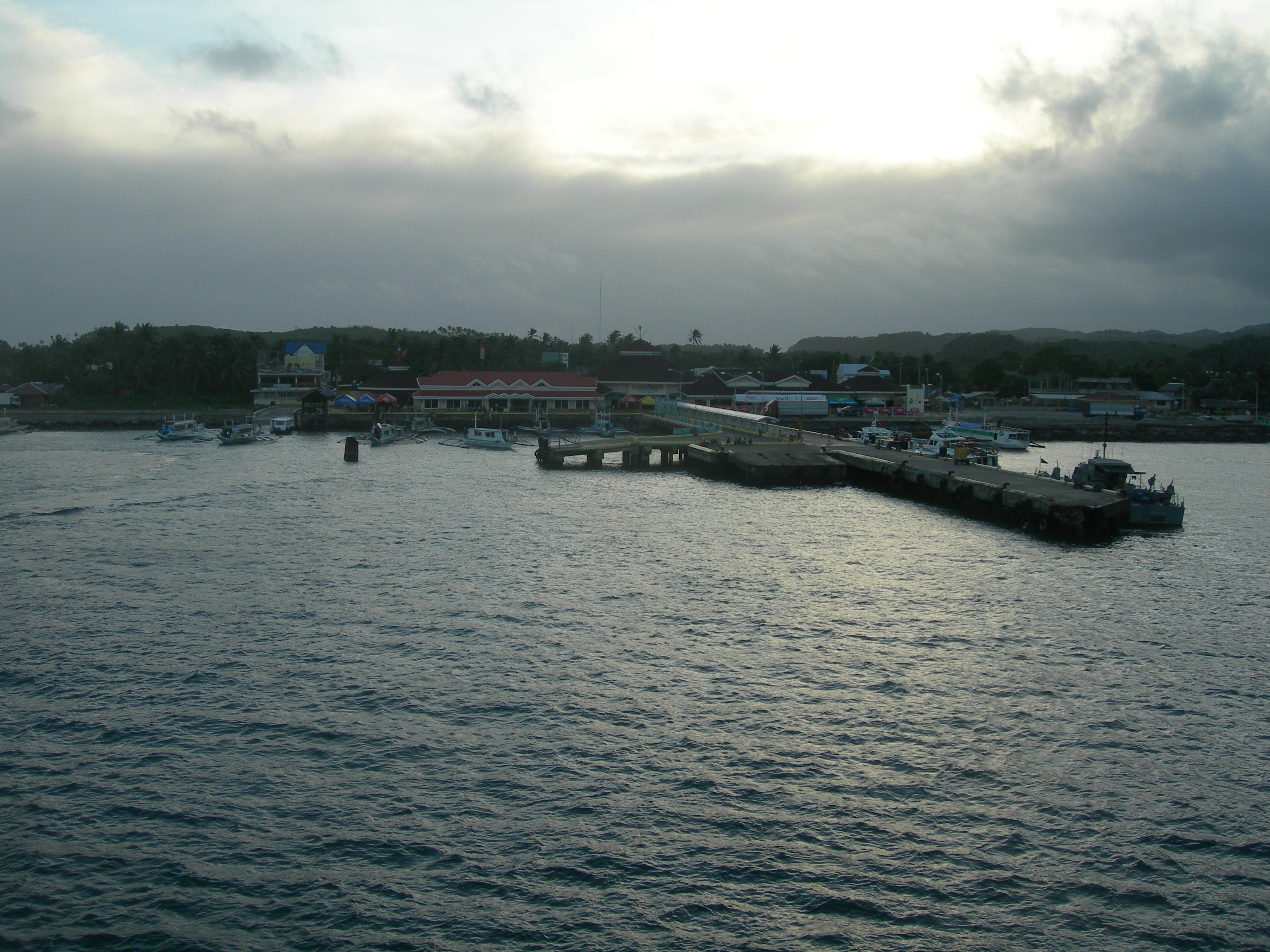 Ferry port of Caticlan, Anklan